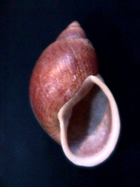 Photo of apertural view of Dryptus marmoratus (Dunker in Philippi, 1844); synonym: Plekocheilus marmoratus